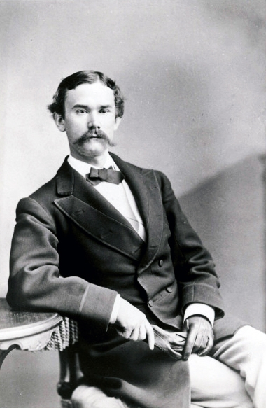 Younger John Hay.